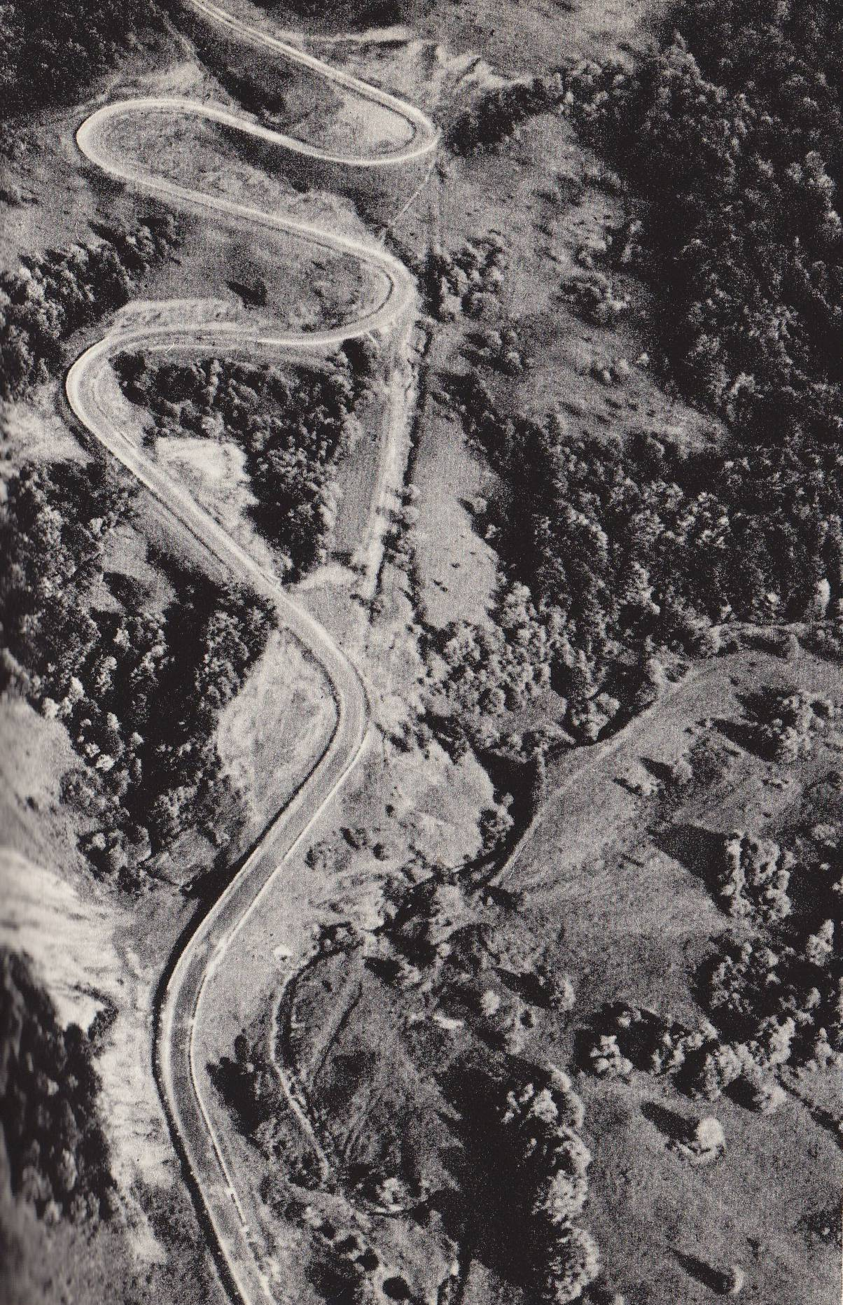 Western part of Przełęcz Wyżna pass